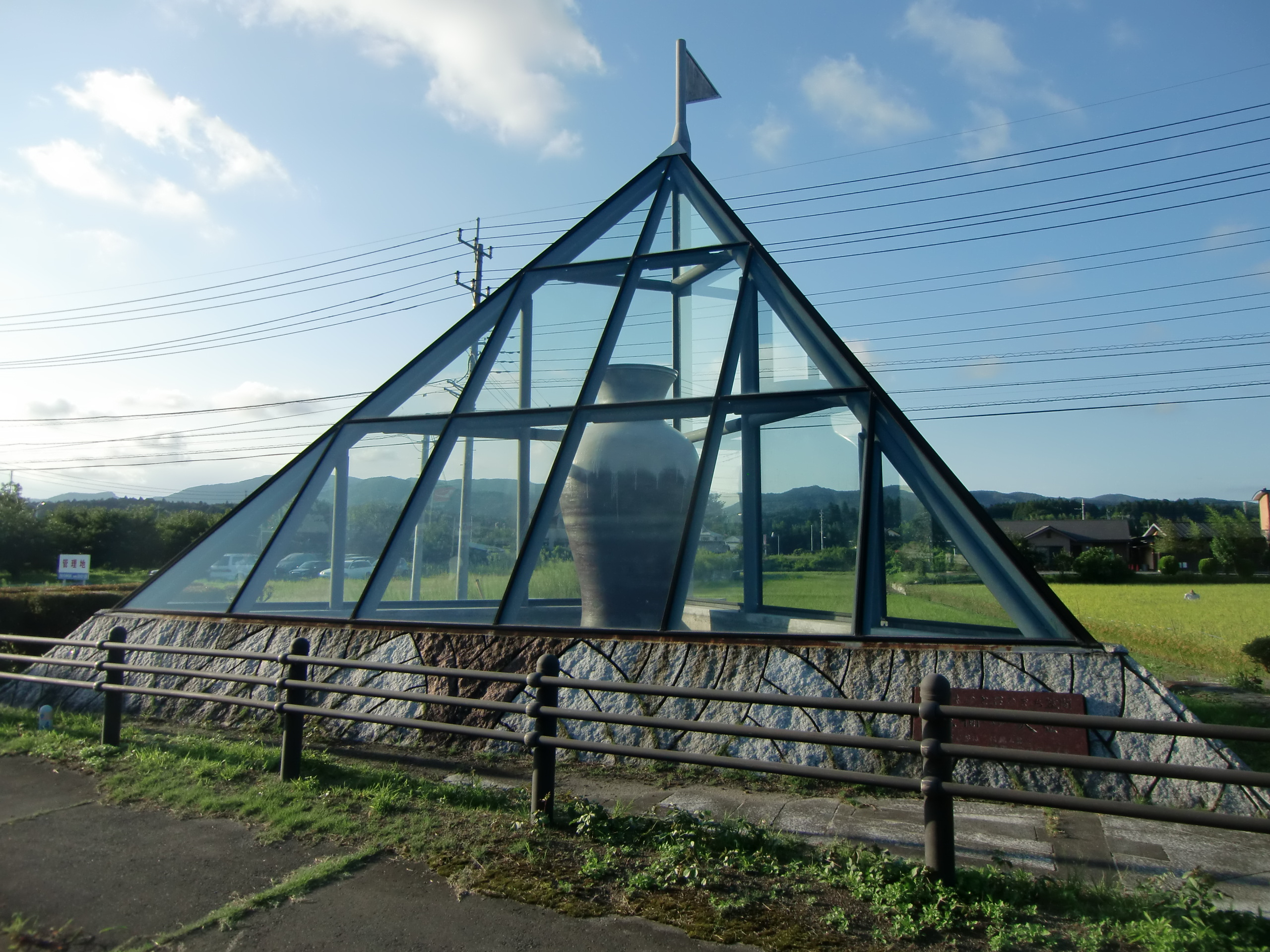 Kasama-no-Ohtsubo, which is in kasama, Kasama city, Ibaraki pref., Japan. This vase is on display beside National Route 50.